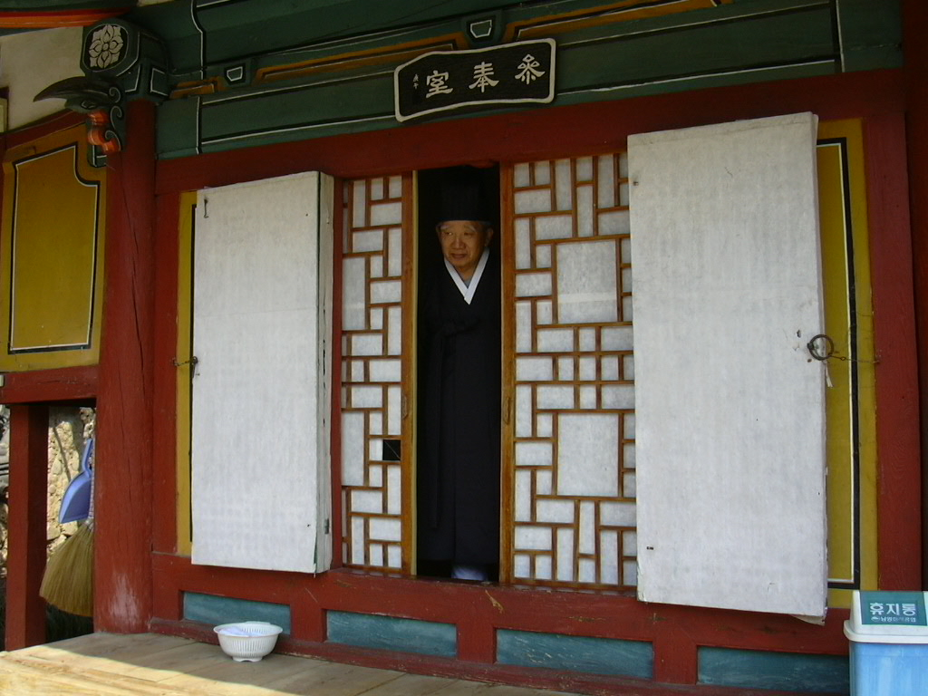 A Confucian scholar in Gyeongju, North Gyeongsang province, South Korea